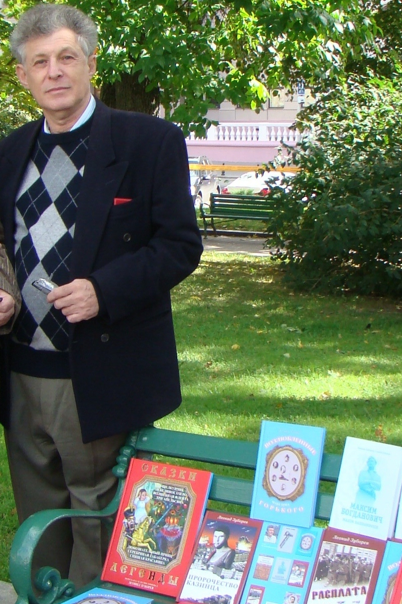 Author